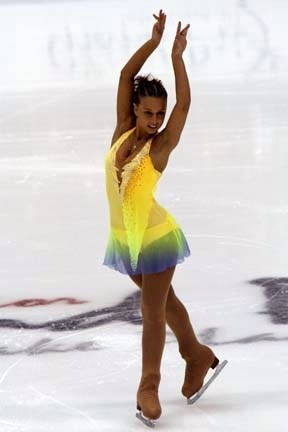 Radka Bártová at the 2007-2008 Junior Grand Prix event in Lake Placid, New York, United States.